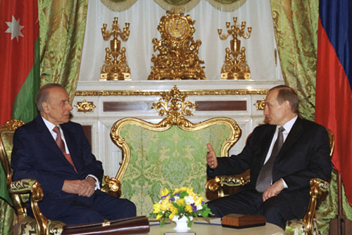 THE KREMLIN, MOSCOW. President Putin talking with President Heydar Aliyev of Azerbaijan.